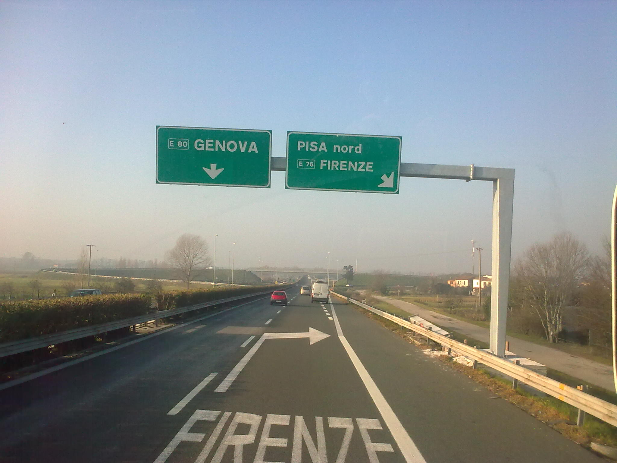 Italian Motorway A12, km 151 to Genoa